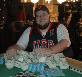 Eric Froehlich at the 2005 World Series of Poker (cropped)